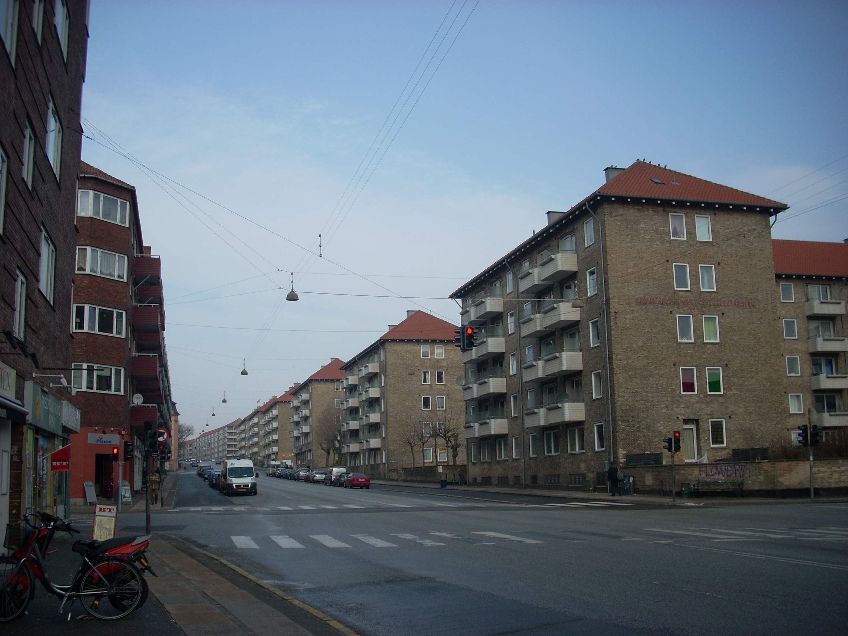 Residential street, Copenhagen, Denmark.